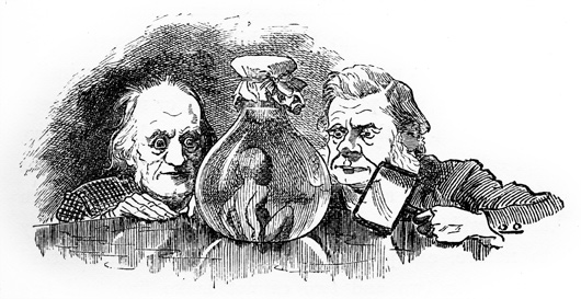 Richard Owen (left) and Thomas Henry Huxley examining a water-baby